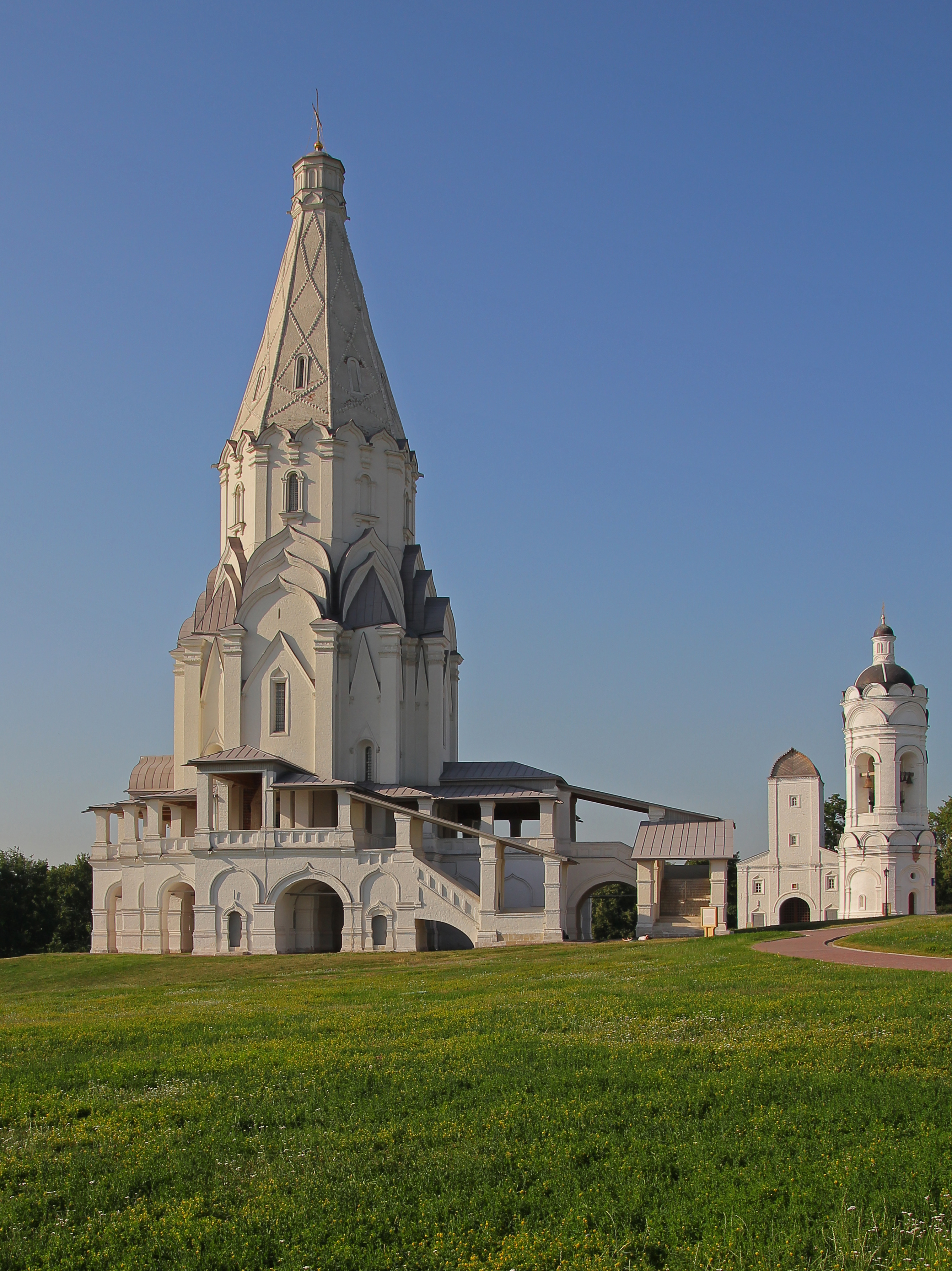 Kolomenskoe Museum Reserve in Moscow. The Ascension Church; on the right side, the bell tower of the St. George Church is visible.